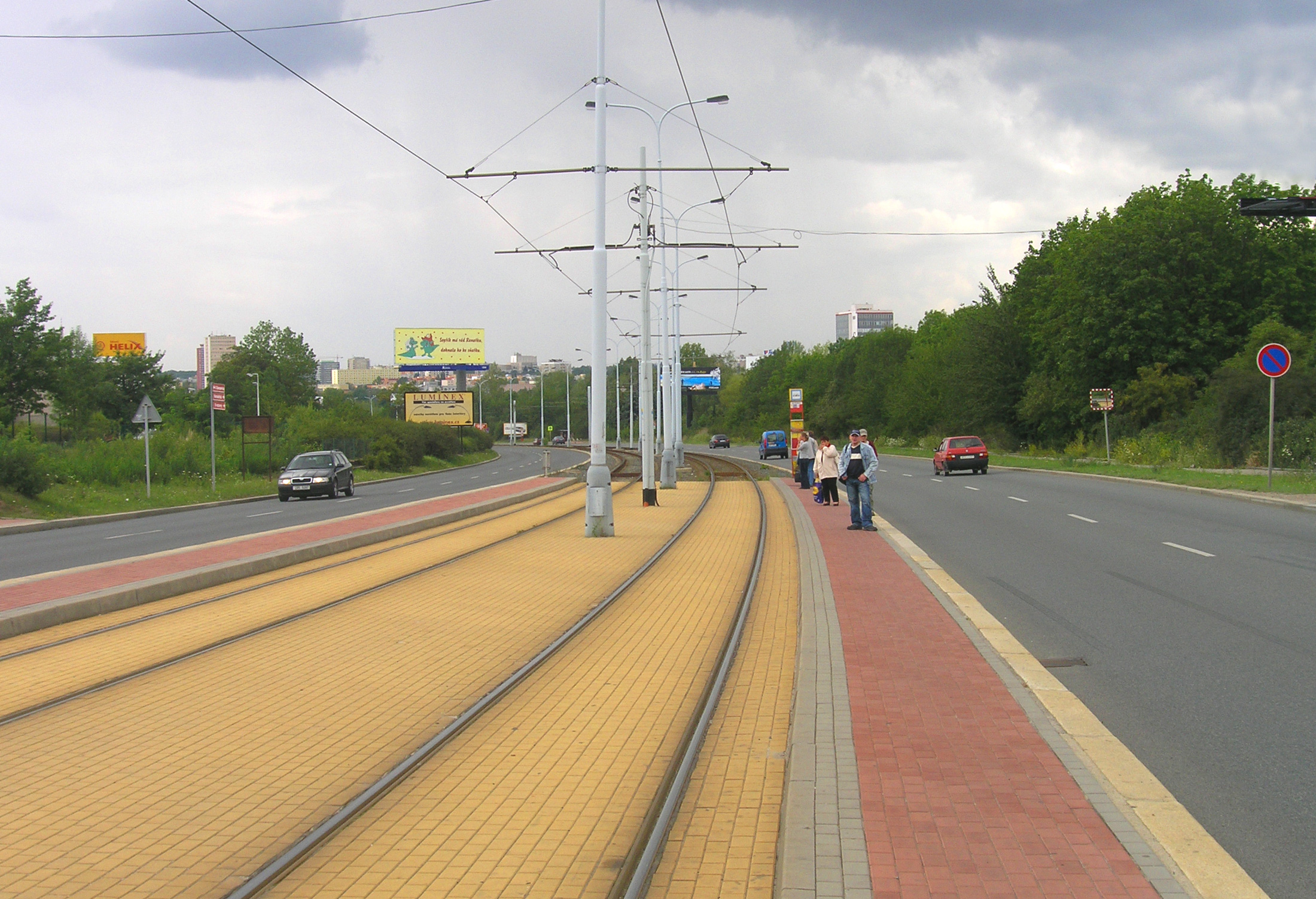 Černokostelecá street with tram track at Malešice, Prague